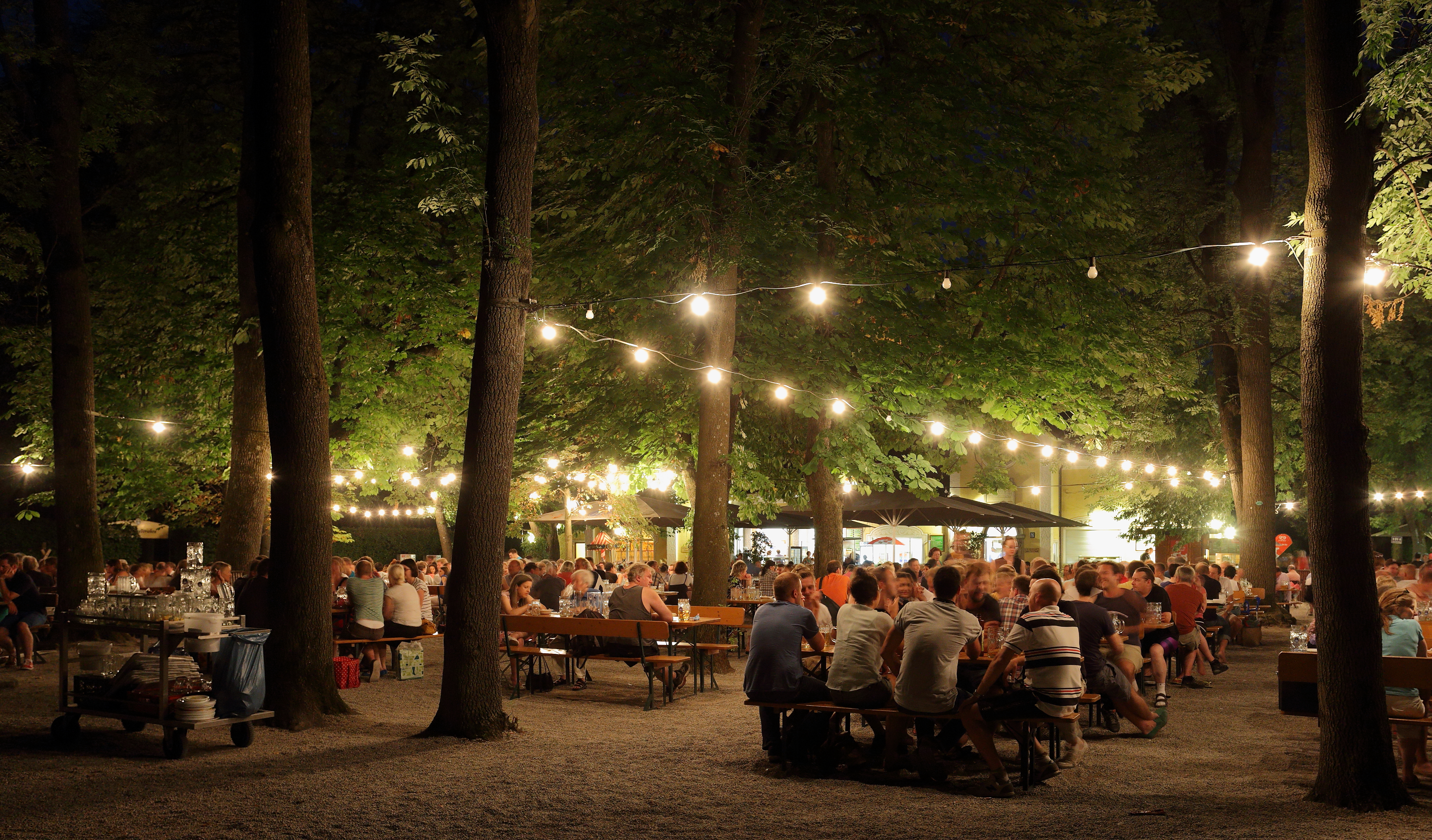 Taxisgarten, a traditional beer garden in Munich at night - short exposure.